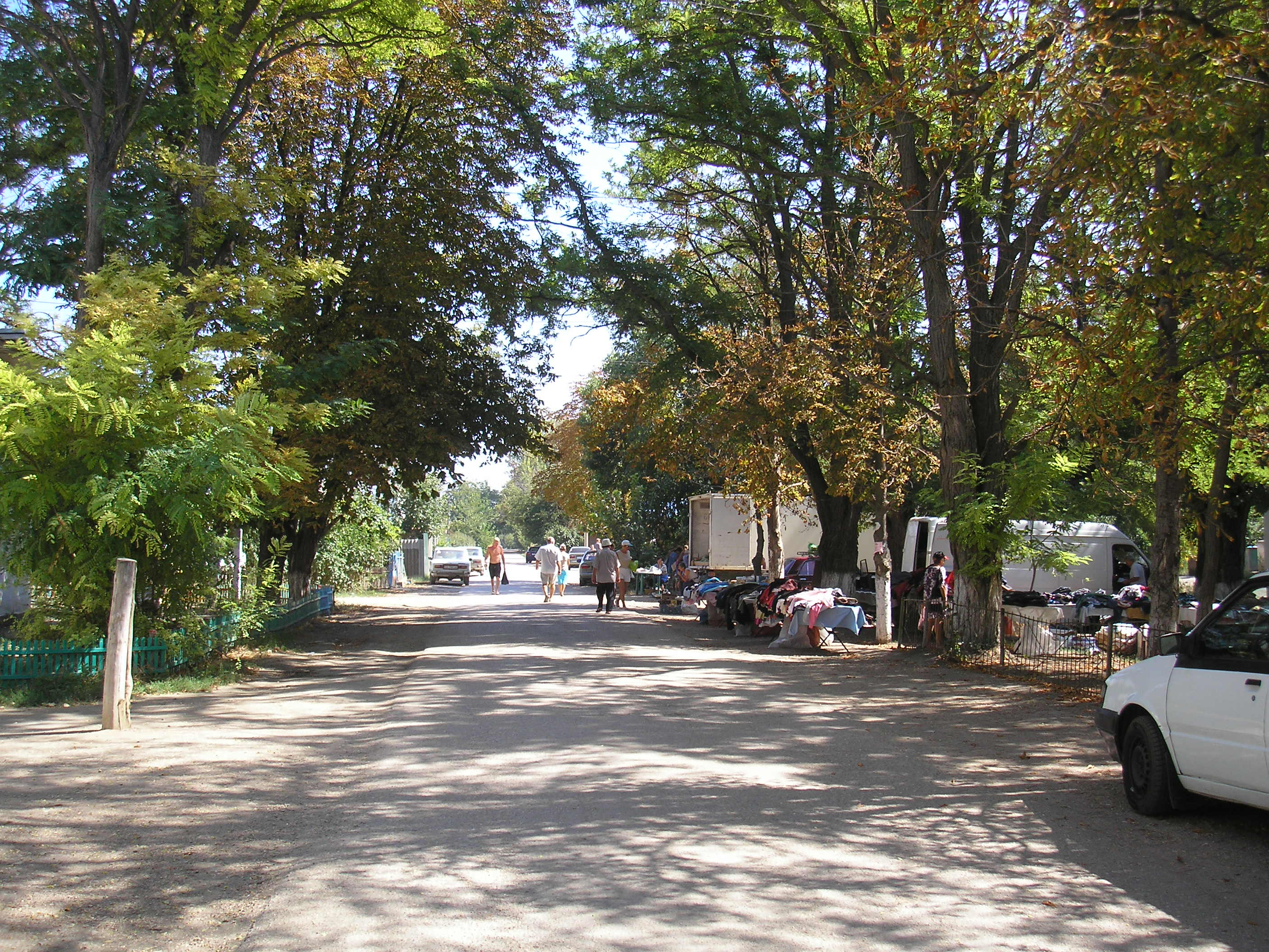 Village Andreevka, Sevastopol, Crimea